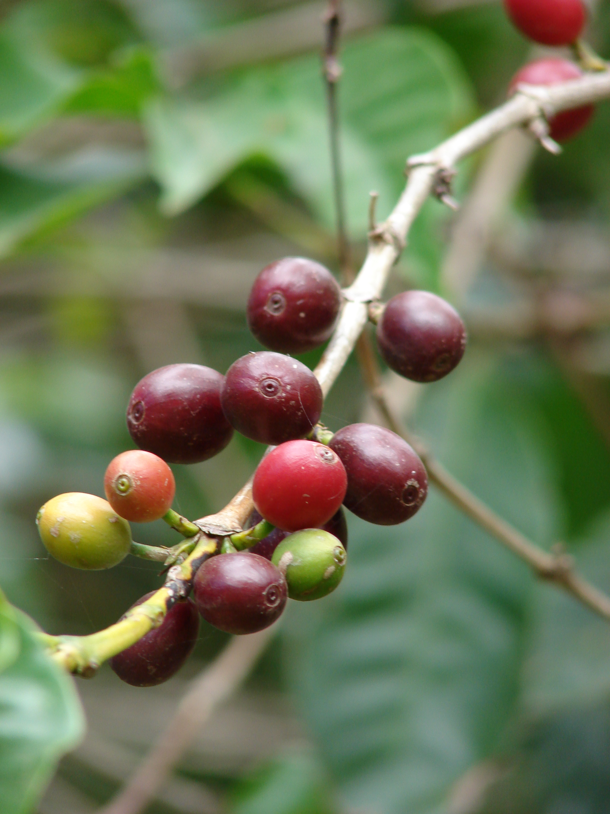 Coffea arabica (fruit). Location: Maui, Olinda